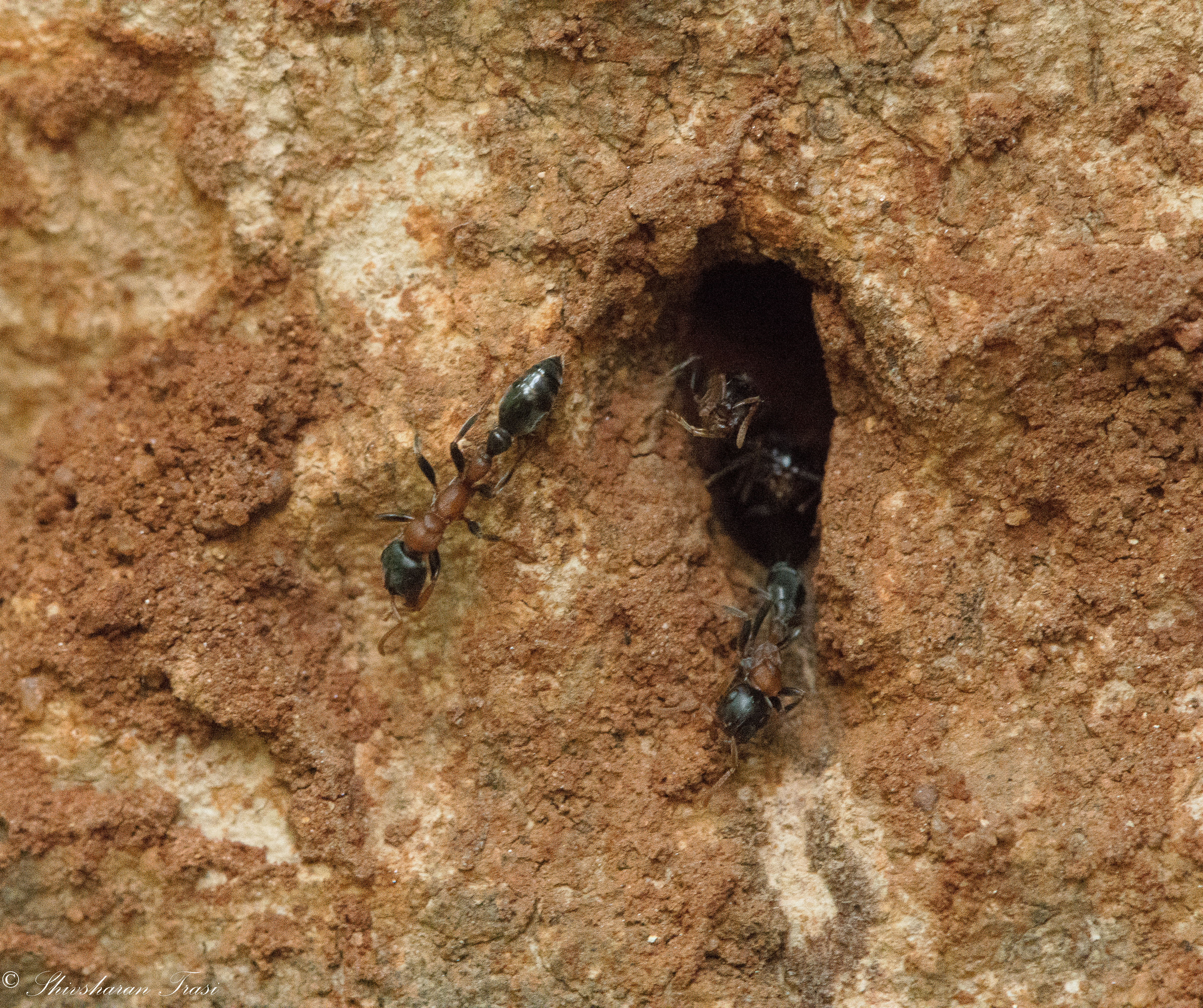 Tetraponera Rufonigra emerging from their nests to go on foraging runs